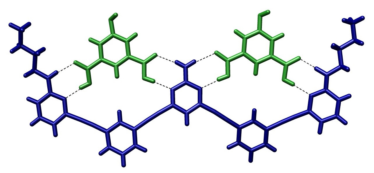 This is a picture generated from crystal structure data reported by Christopher Bielawski, Yuan-Shek Chen, Peng Zhang, Peggy-Jean Prest and Jeffrey S. Moore in Chemical Communications, Year 1998, Pages 1313-1314. It shows two isophthalic acids bound to a host molecule through hydrogen bonds. It was made by myself and is free to be used by all.